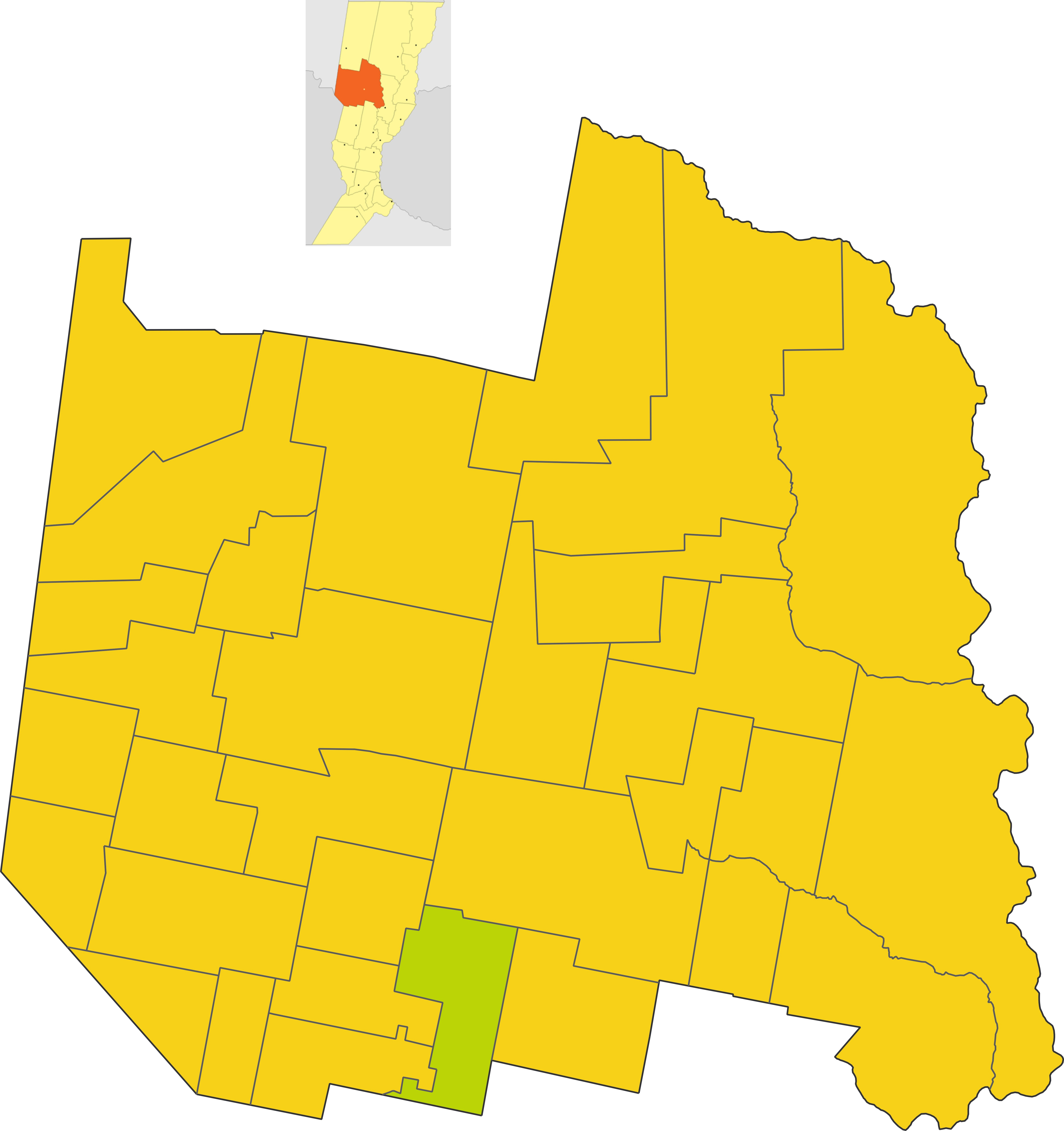 Map of the comuna de Moises Ville in San Cristobal department, Santa Fe province, Argentina